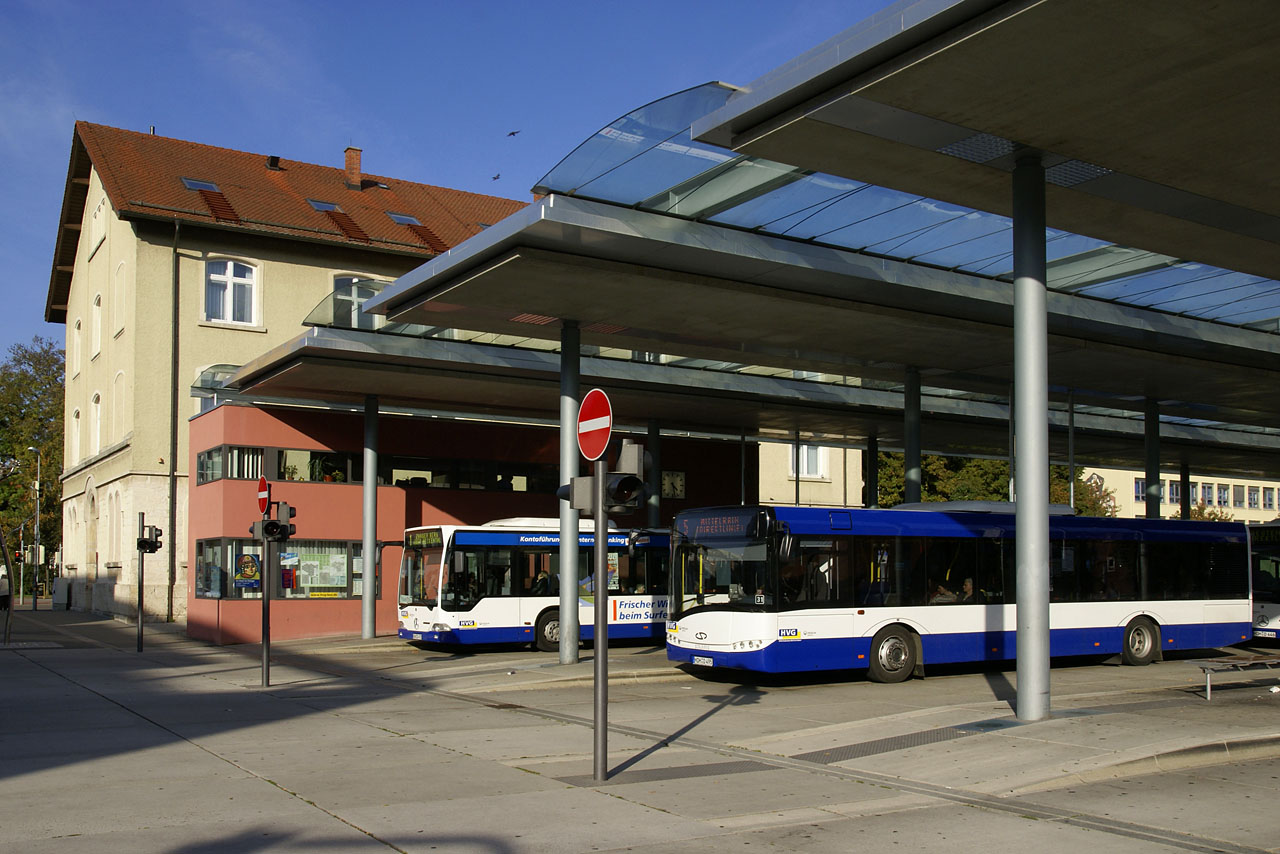 From right to left: Solaris Urbino 12 bus (built 2007), and Mercedes-Benz Citaro bus in Heidenheim, Germany. Heidenheimer Verkehrsgesellschaft mbH Veolia Verkehr (HVG) operator.